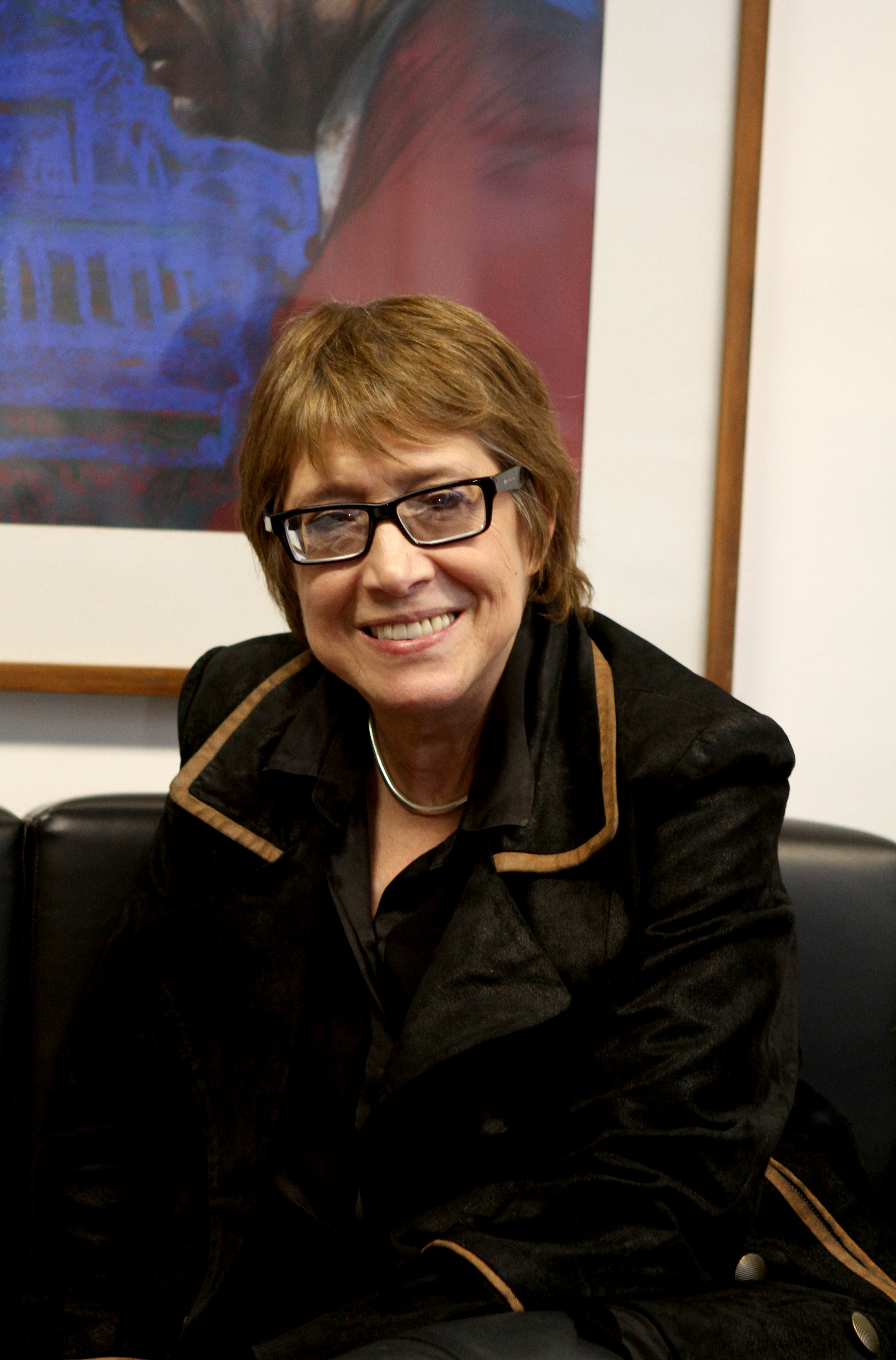 Minister of Culture of Argentina Teresa Parodi. Photo: Silvina Frydlewsky/Ministerio de Cultura